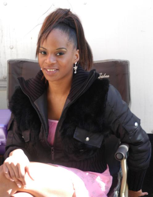 Bambi Brown on the set of "Lesbian Swirl Fest 10" on February 3, 2005